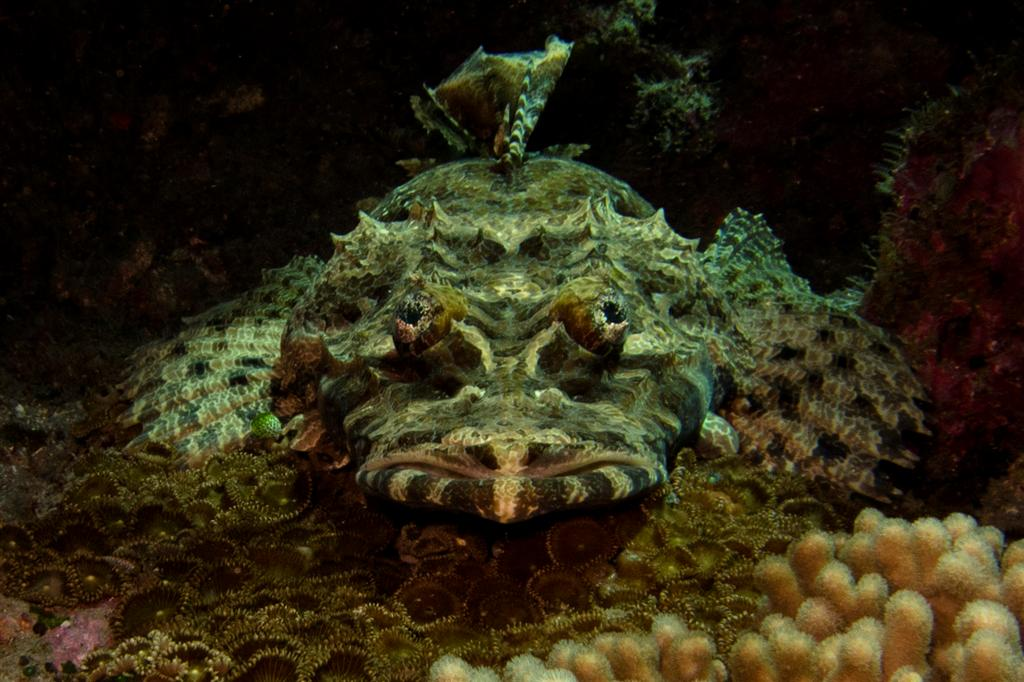 Crocodile Fish